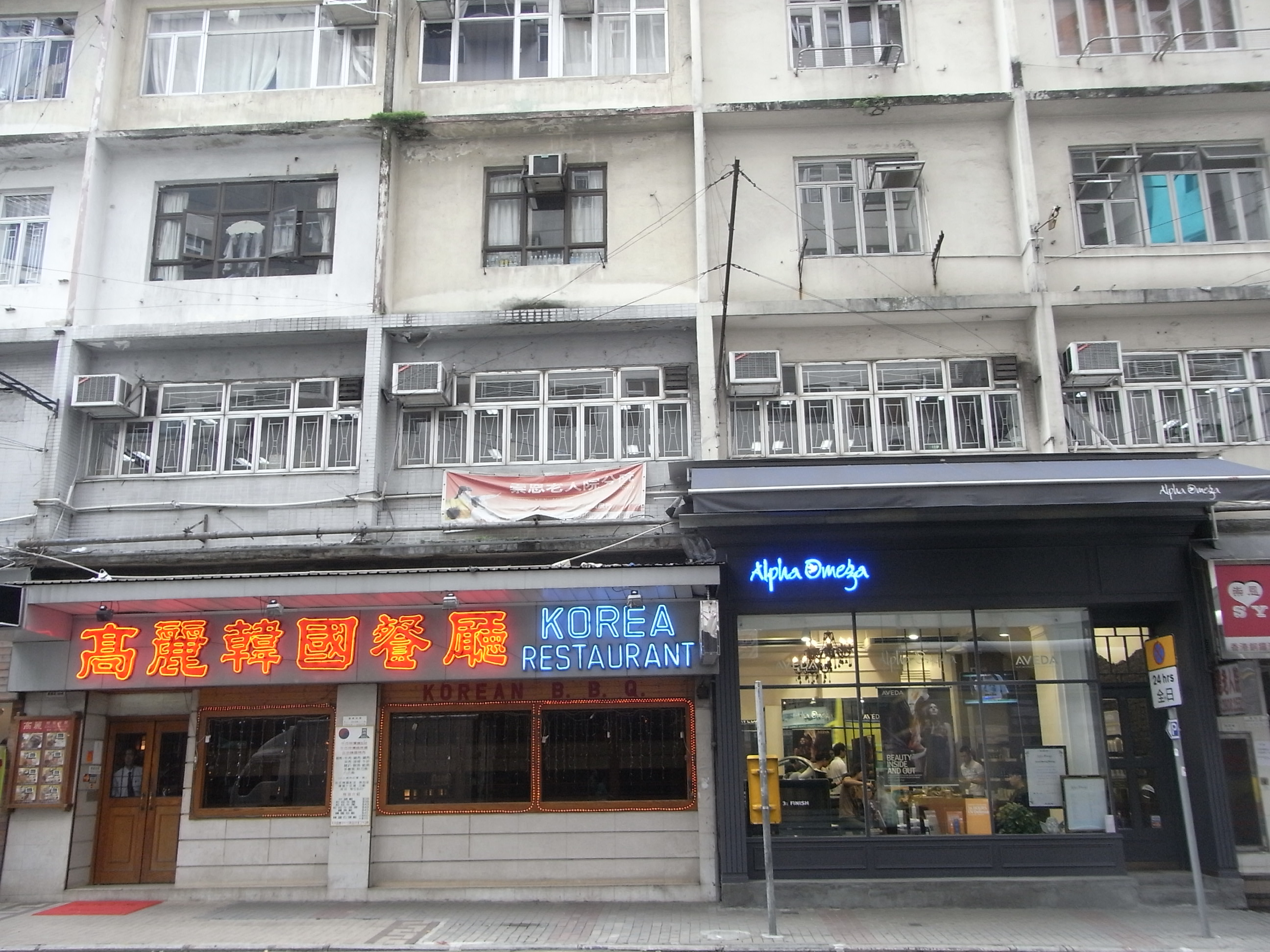 銅鑼灣